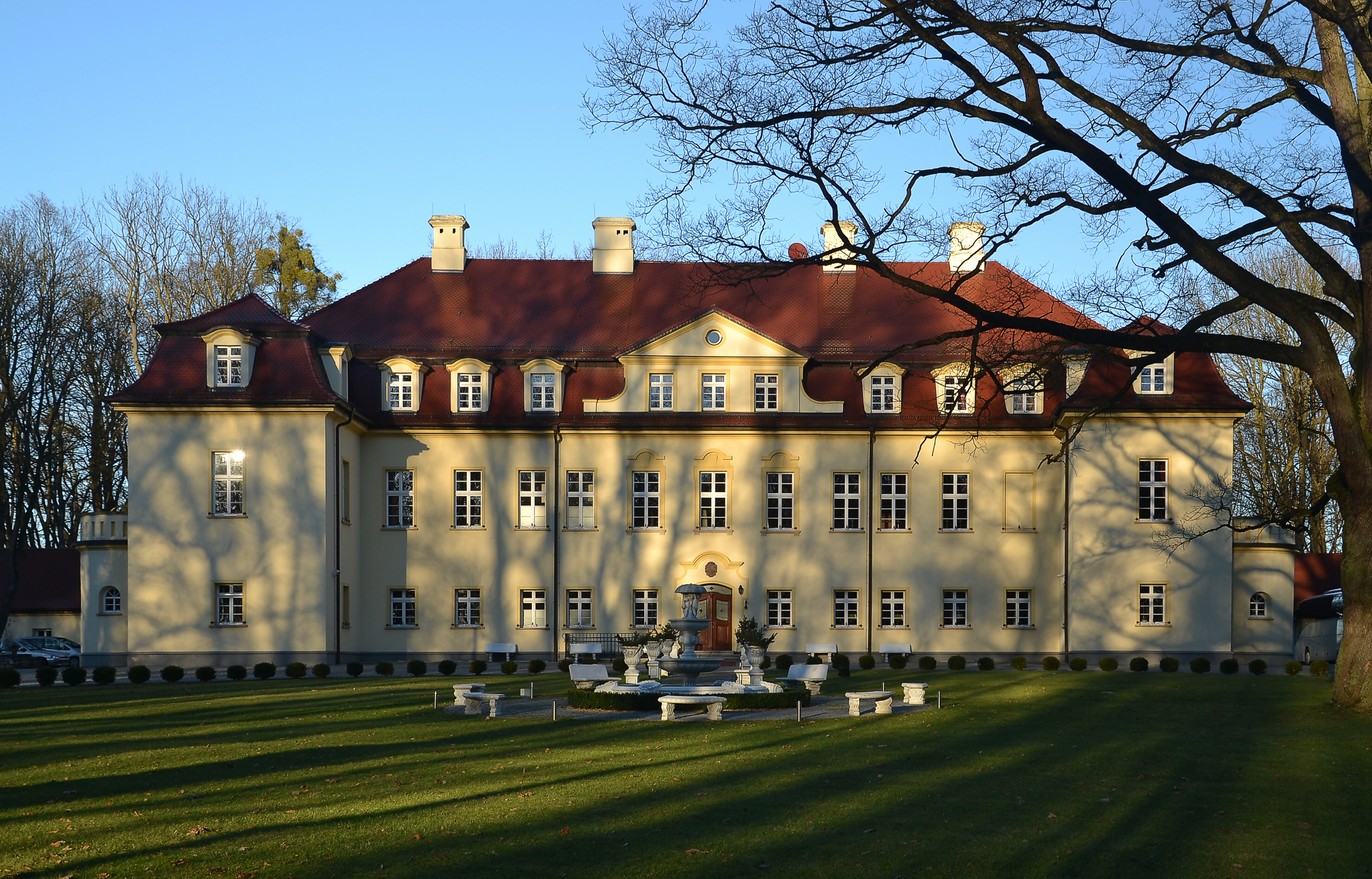 Palace in Izbicko (Stubendorf), Upper Silesia